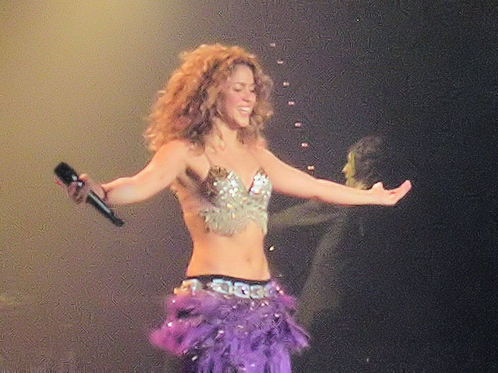 Shakira during the Oral Fixation Tour 2006, La Coruña-Spain